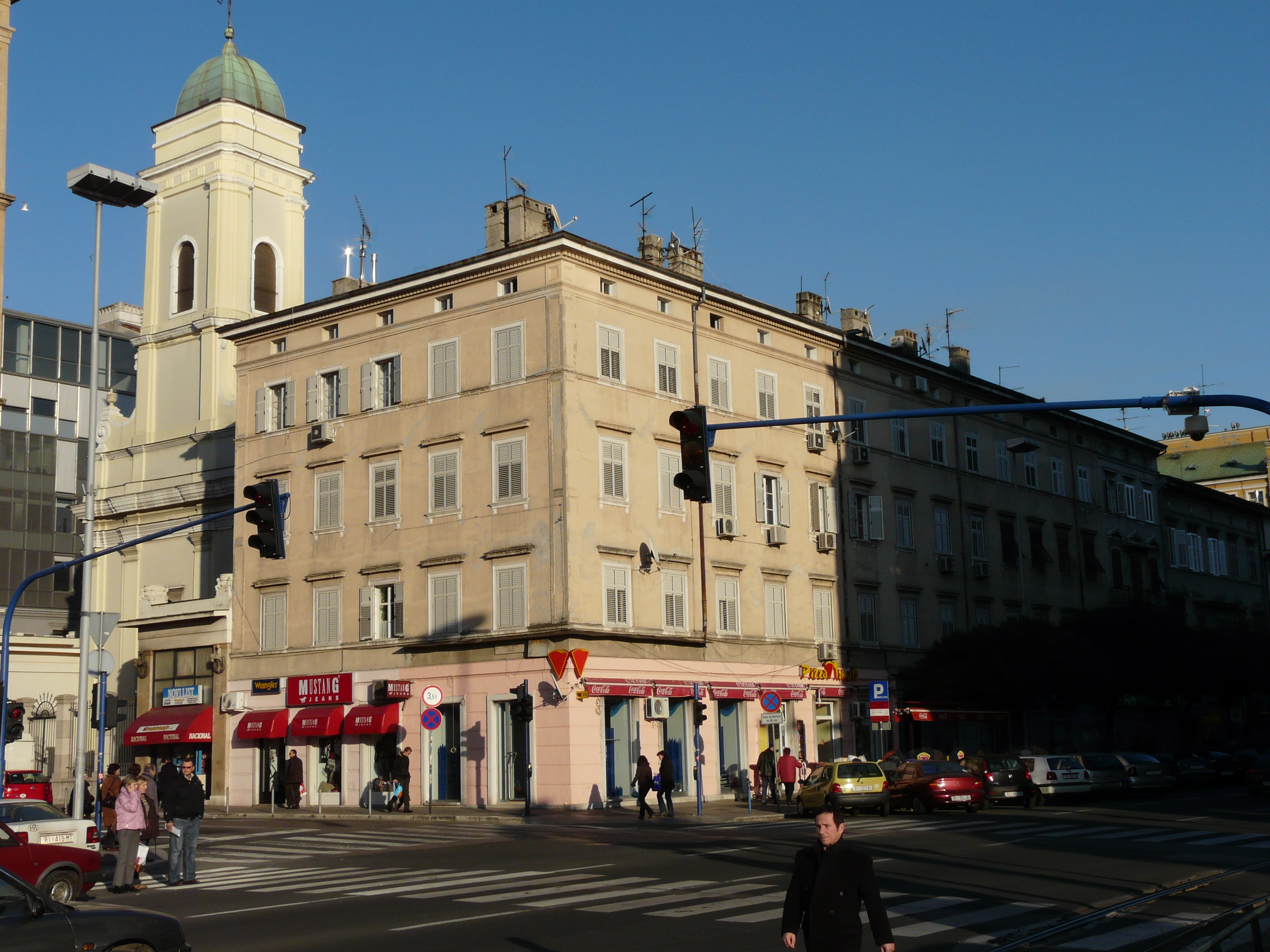 Serbian Ortodox Saint Nicola church in RIjeka_View from RIjeka Harbour side